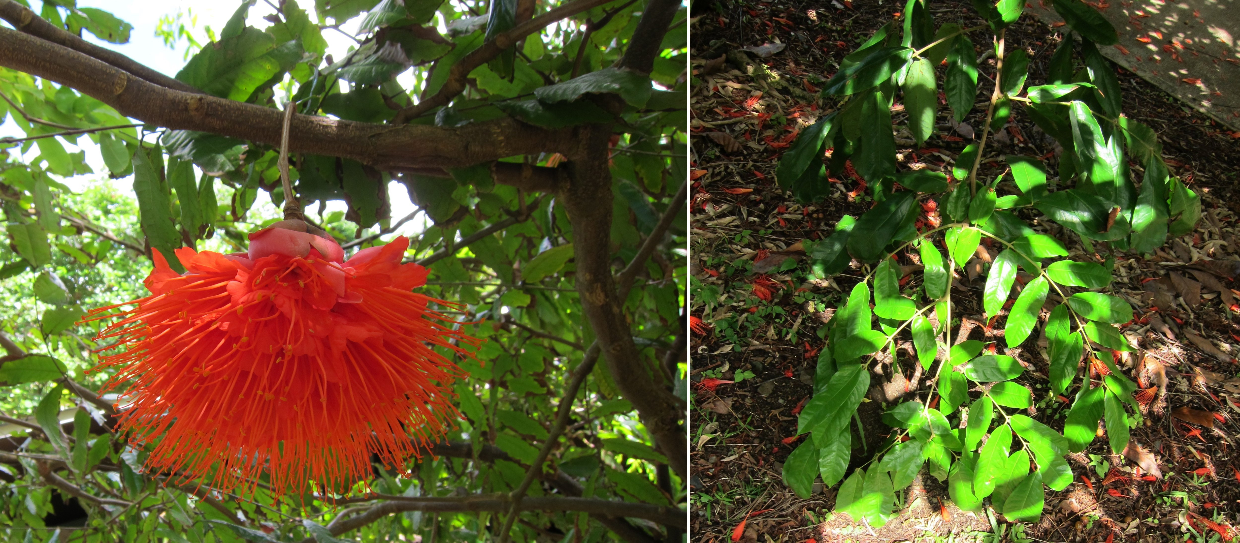 Brownea macrophylla (Panama flame tree), Ho'omaluha Botanical Garden, Oahu, Hawaii